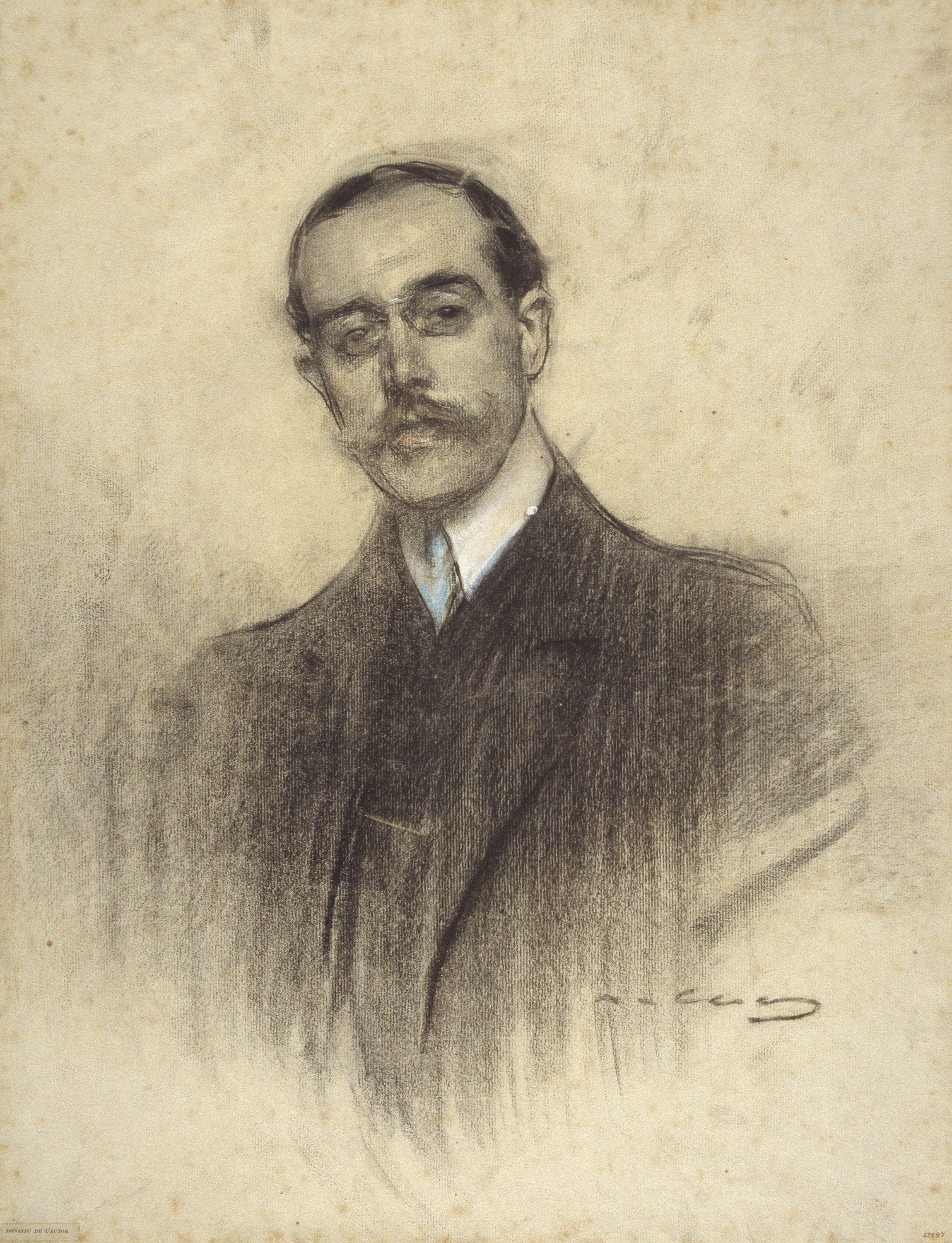 Portrait by Ramon Casas conserved at MNAC in Barcelona.